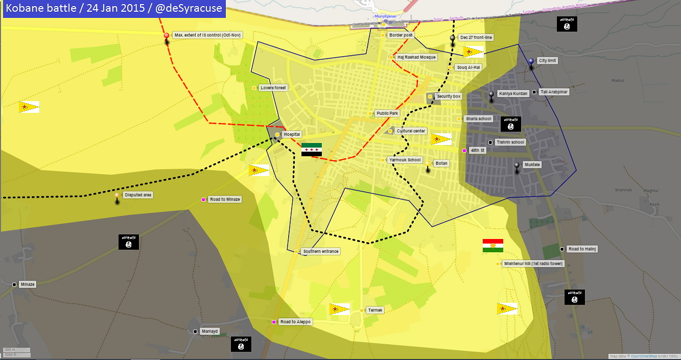 Front line map of the Siege of Kobanî, from the maximum control of ISIL control in late October&–early November 2014, to the YPG counter-offensive on January 24, 2015, after the decisive YPG capture of Mistanour Hill (lower right of yellow area) on January 19. The dashed line representing the boundary of the max ISIL control frontline was changed from light orange to red to make it more distinguishable from the yellow background of the Kurdish-controlled area. Yellow = YPG/allied brigades-controlled areas Grey = ISIL-controlled areas Shaded areas/Purple dots = Contested areas Red dashed line = Maximum extent of IS control (circa November 1, 2014) Black dotted line = Front line December 27, 2014 Blue line = Boundary of Kobanî city